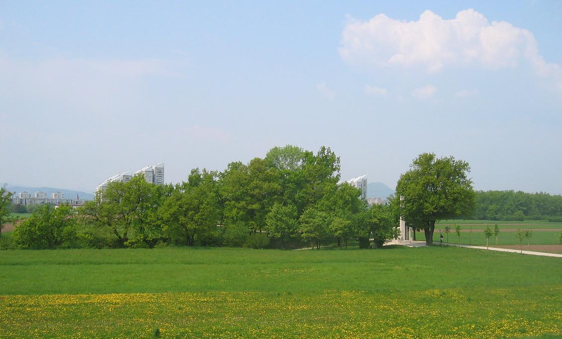 Trail of Remembrance and Comradeship (Pot spominov in tovarištva) - Ljubljana Section of the walk near Žale cemetery photo:Ziga 08:51, 7 May 2006 (UTC)